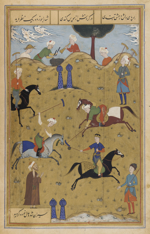 Shah Mahmud. A polo game: an illustration from the poem Guy u Chawgan (the Ball and the Polo-mallet) (F1935.18, manuscript). Safavid dynasty. Color and gold on paper. H: 19.4 W: 12.3 cm. Tabriz, Iran. Purchase, F1935.19.